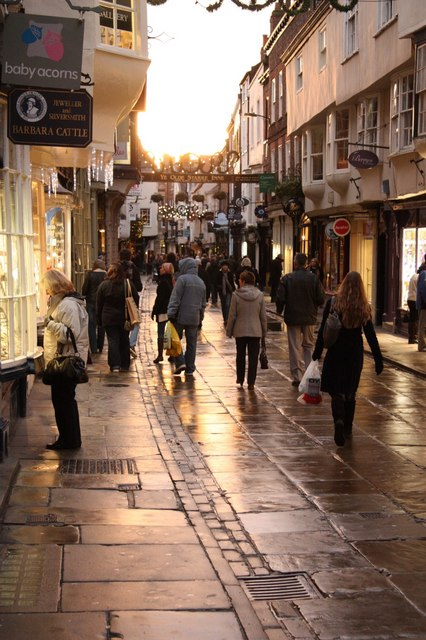 Stonegate One of York's oldest streets, roughly following the line of the Roman Via Praetoria, with the sign for York's oldest inn, the Olde Starre Inn spanning the street